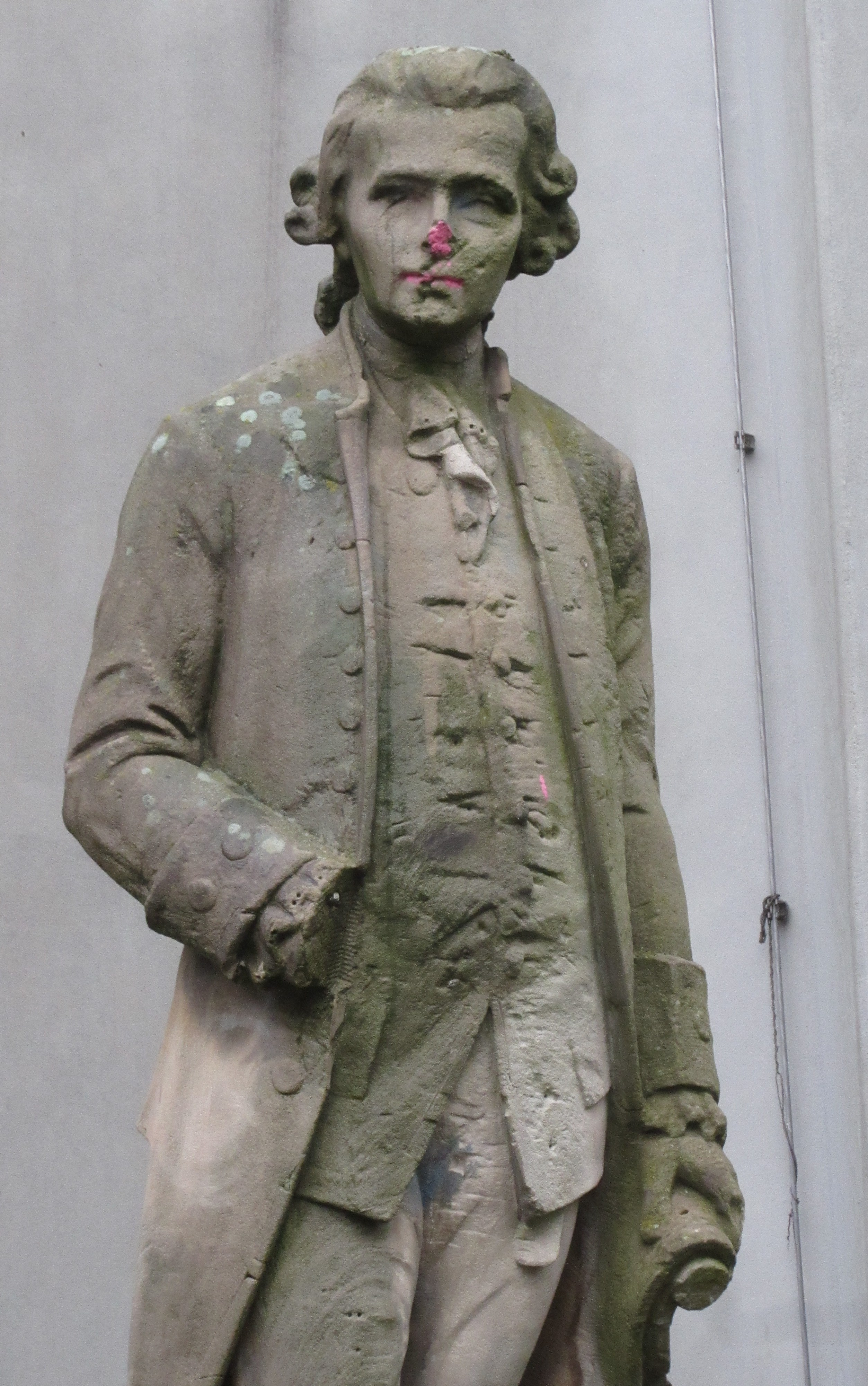 Statue of Gotthold Ephraim Lessing at the Lessing-Gymnasium in Frankfurt on Main, Germany